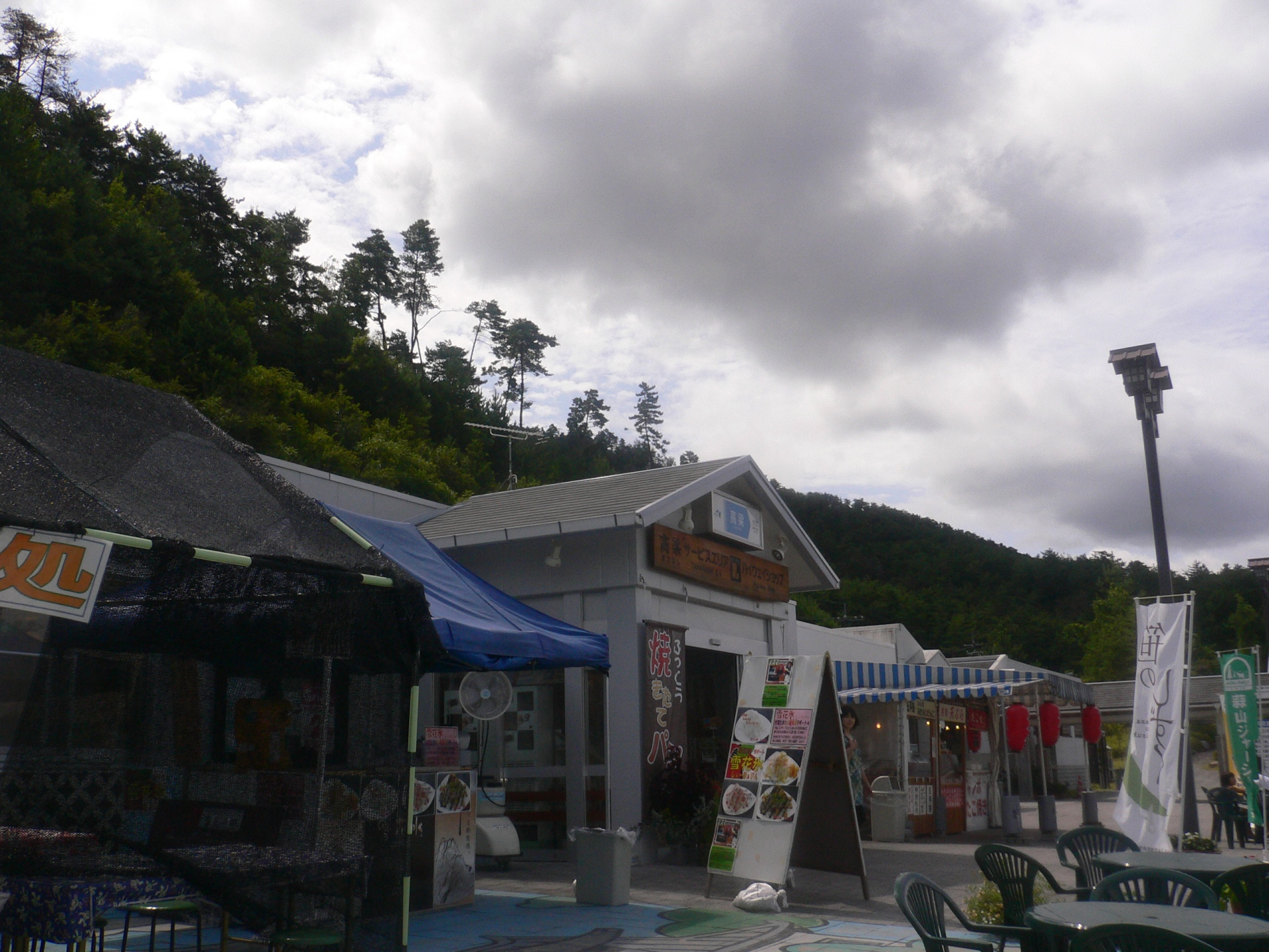 Takahashi Service Area up line